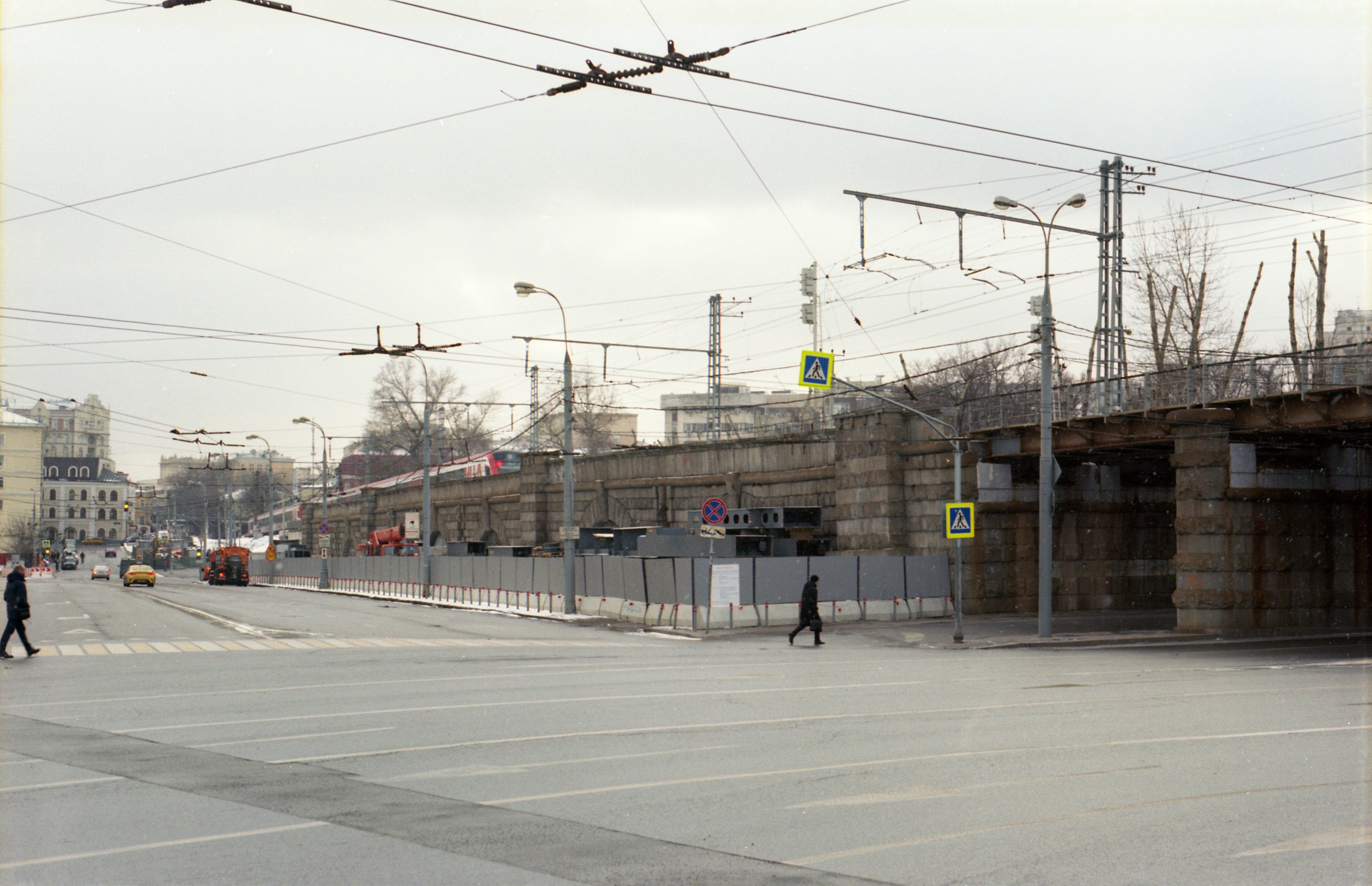 Moscow. Ricoh KR-10X camera, Kodak Ektar100 begin construction of bridge for 3-4 track Kurskaya-Kalanchevskaya